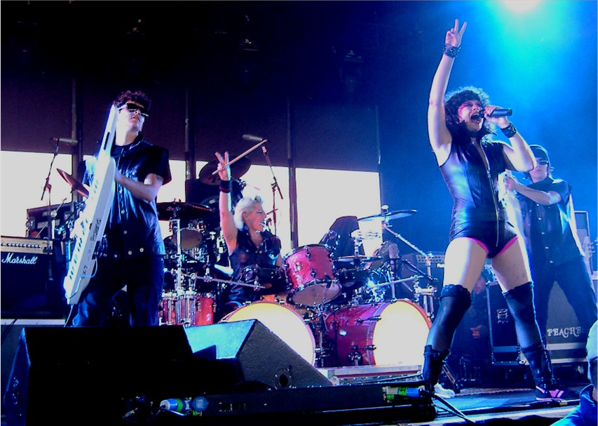 Musician "Peaches" (right foreground - real name Merrill Beth Nisker), on tour with her band "The Herms" in 2006. From left to right: JD Samson, Samantha Maloney, Peaches, Radio Sloan.